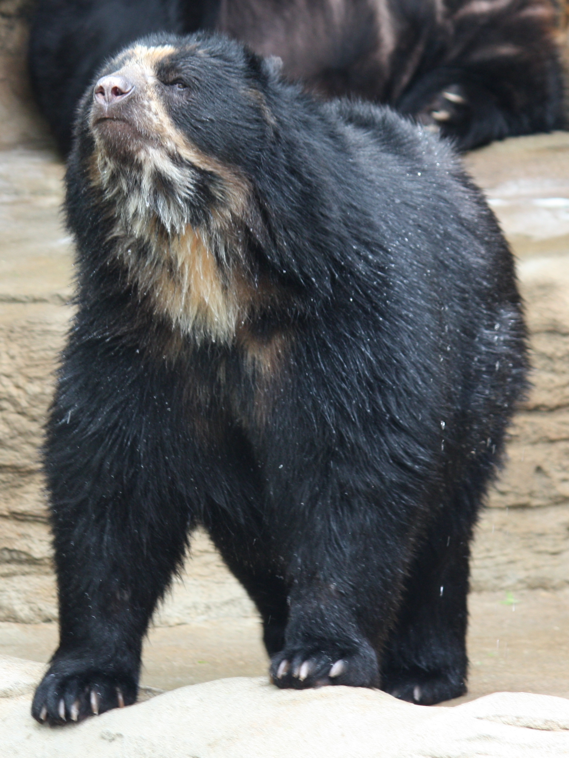 Spectacled Bear Tremarctos ornatus at Cincinnati Zoo